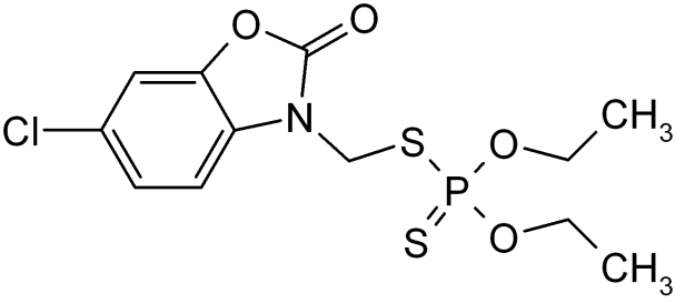 Chemical structure of phosalone